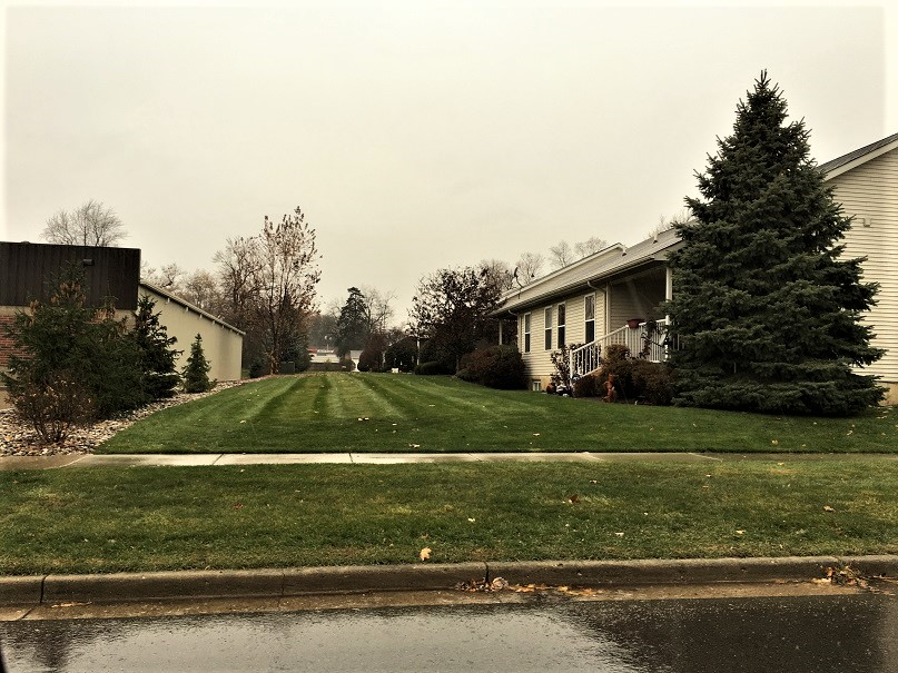 East Ward School This scene, taken in the 100 block of Kibbee Street, shows the best view of the former school site, which is now occupied by retail space and senior housing.